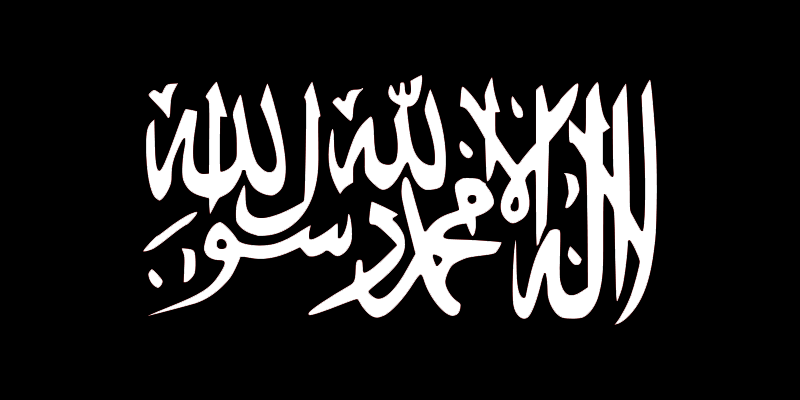 Flag of Hizb-ut-Tahrir (Party of Liberation)